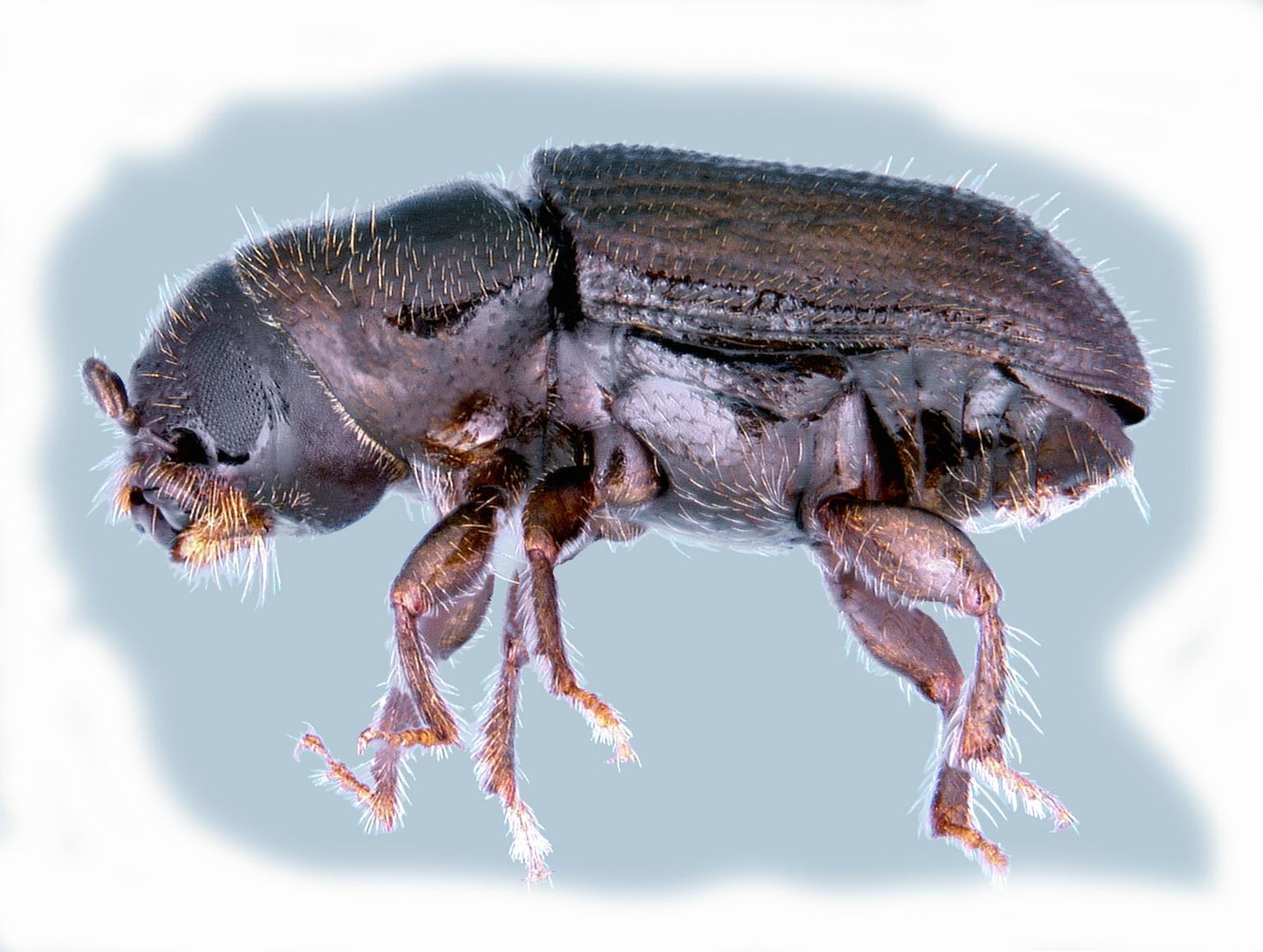 This is a picture of a southern pine beetle that I found on